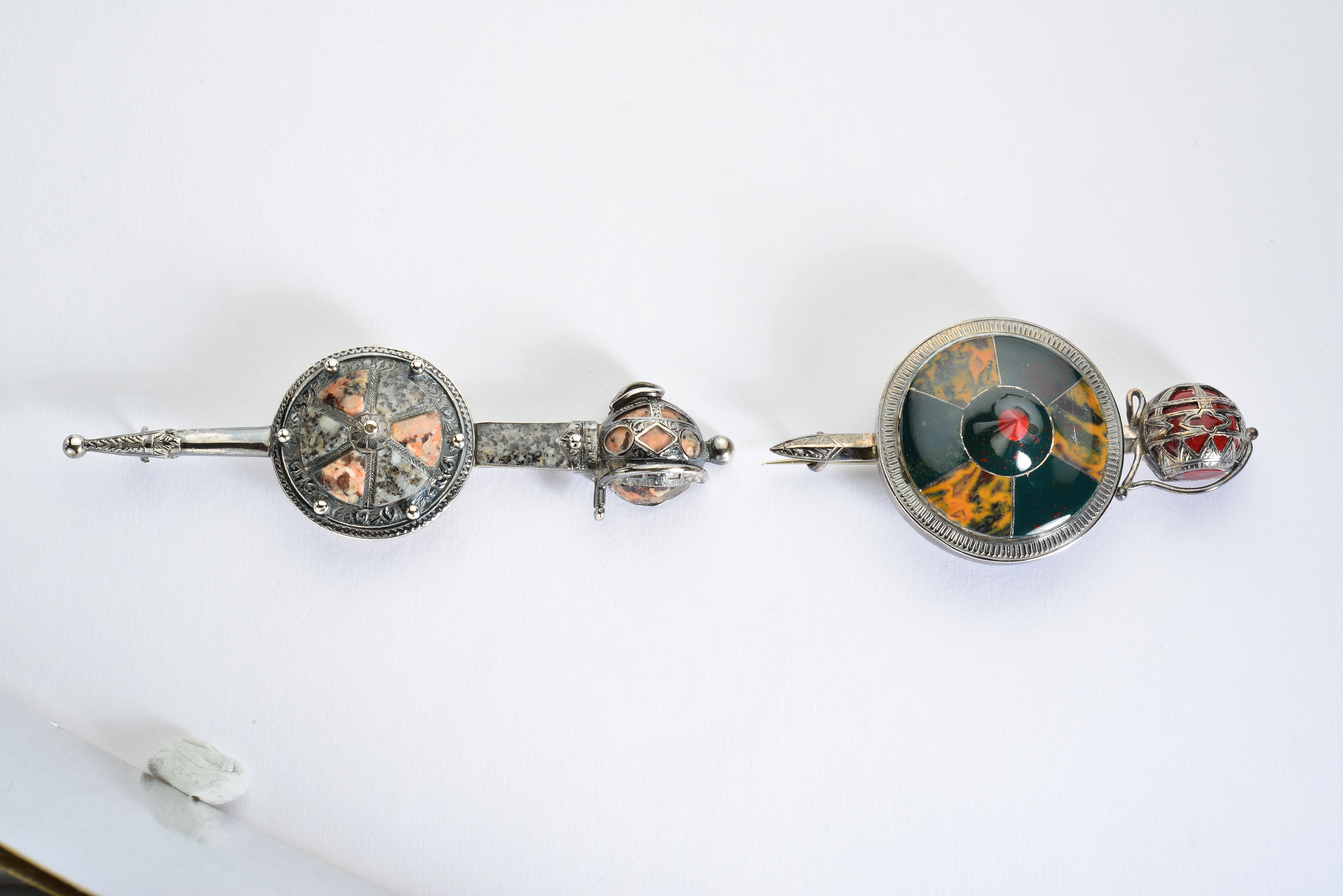 Left brooch : silver brooch, in the form of a claymore basket sword and targe shield. the targe and hilt of the sword are inlaid with polished granite.This Scottish jewellery dates from around the mid-19th century 101mm long x 30mm wide HARGM : 2603 Right brooch : silver brooch, in the form of a claymore basket sword and targe shield The targe is inlaid with alternating sections of green and yellow jasper. The hilt is inlaid with red jasper under a pierced silver hand guard. This Scottish jewellery dates from around the mid-19th century. 75mm long x 39mm wide HARGM : 2604 These two pieces were made at period of time when there was renewed interest,especially amongst the British royal family,in the Scottish Highlands and highland dress.Queen Victoria purchased Balmoral Castle and its estate in 1848 and she insisted on wearing highland dress when she visited the estate.The royal family including her children appeared in court paintings wearing plaid affixed by brooches.The general public started following the royals' lead and it became fashionable to wear tartan,plaids and brooches which featured Scottish designs. (Helen Ritchie A Passionate Collector p63 ISBN 978-1-898408-14-7)